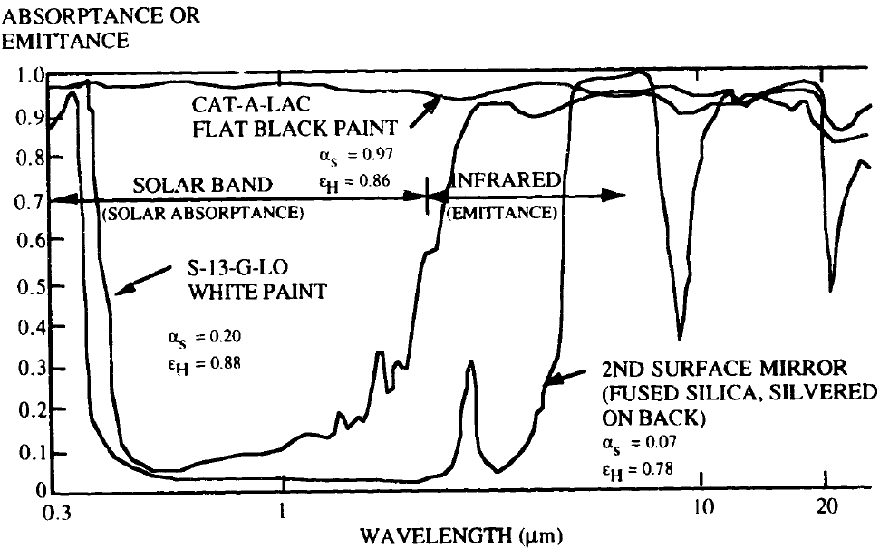 Spectral response of two paints in the visible and the infrared. Used to calculate temperatures of objects painted with these paints in space.